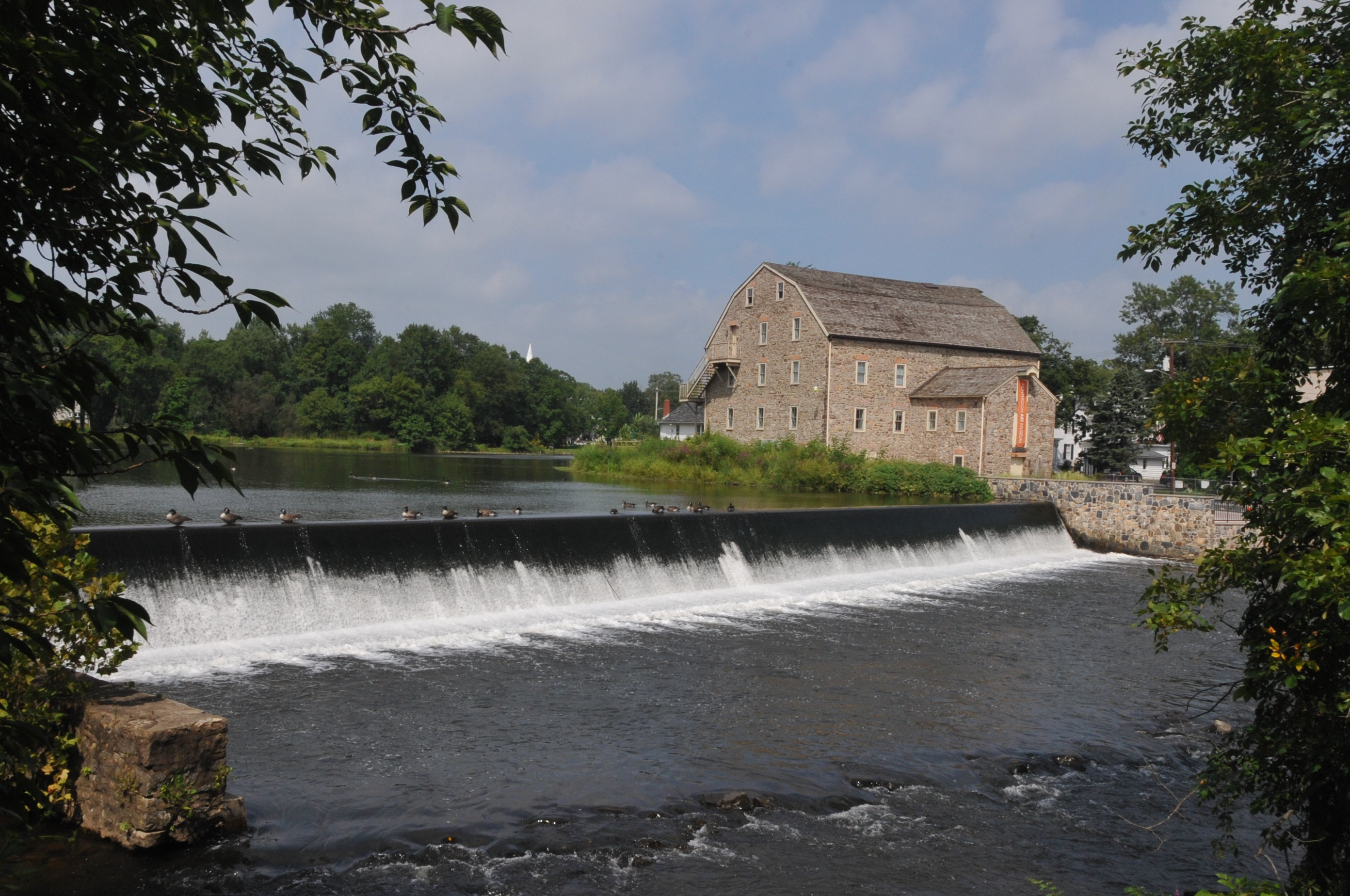 DUNHAM’S MILL, AKA PARRY’S MILL AND SINCE 1952 THE HUNTERDON MUSEUM OF ART; CIRCA 1830; ON THE SOUTH BRANCH OF THE RARITAN RIVER